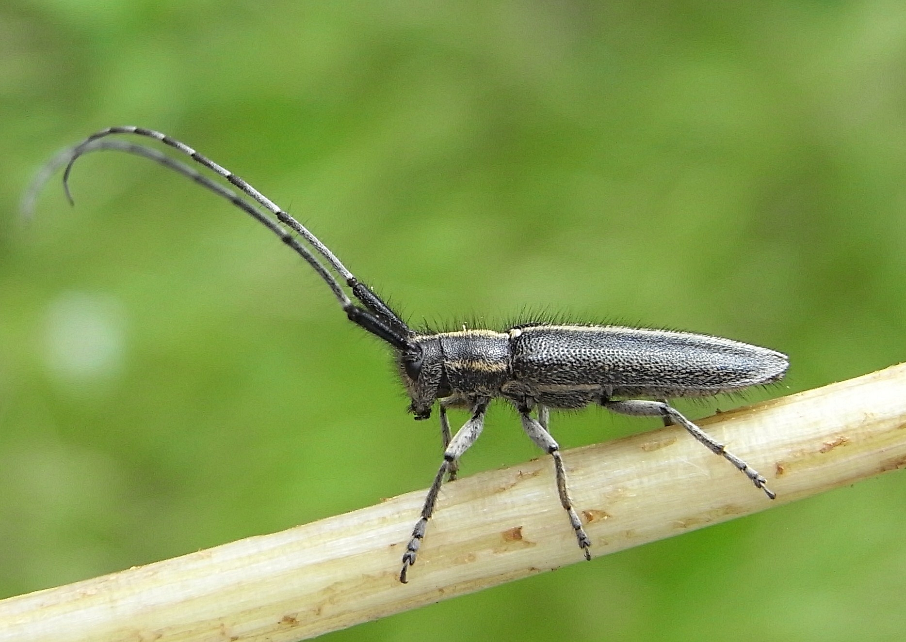 Agapanthia cardui from Hungary, Villany-hills at 2010-05-06Ricoh R8